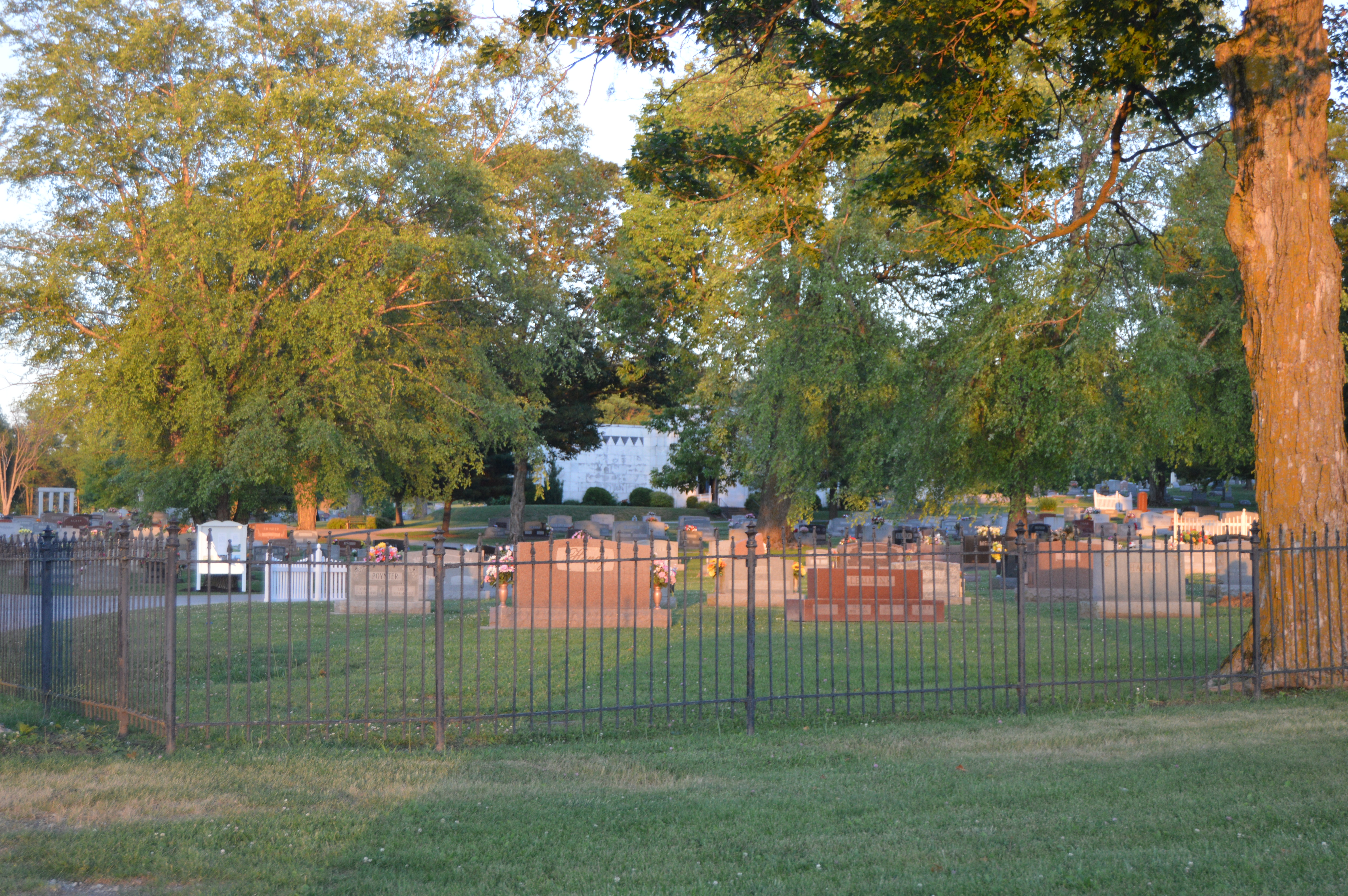 Roadside view of graves and the mauseoleum at Forest Hill Cemetery, located along S50W just southwest of Greencastle in Greencastle Township, Putnam County, Indiana, United States. The cemetery is listed on the National Register of Historic Places.